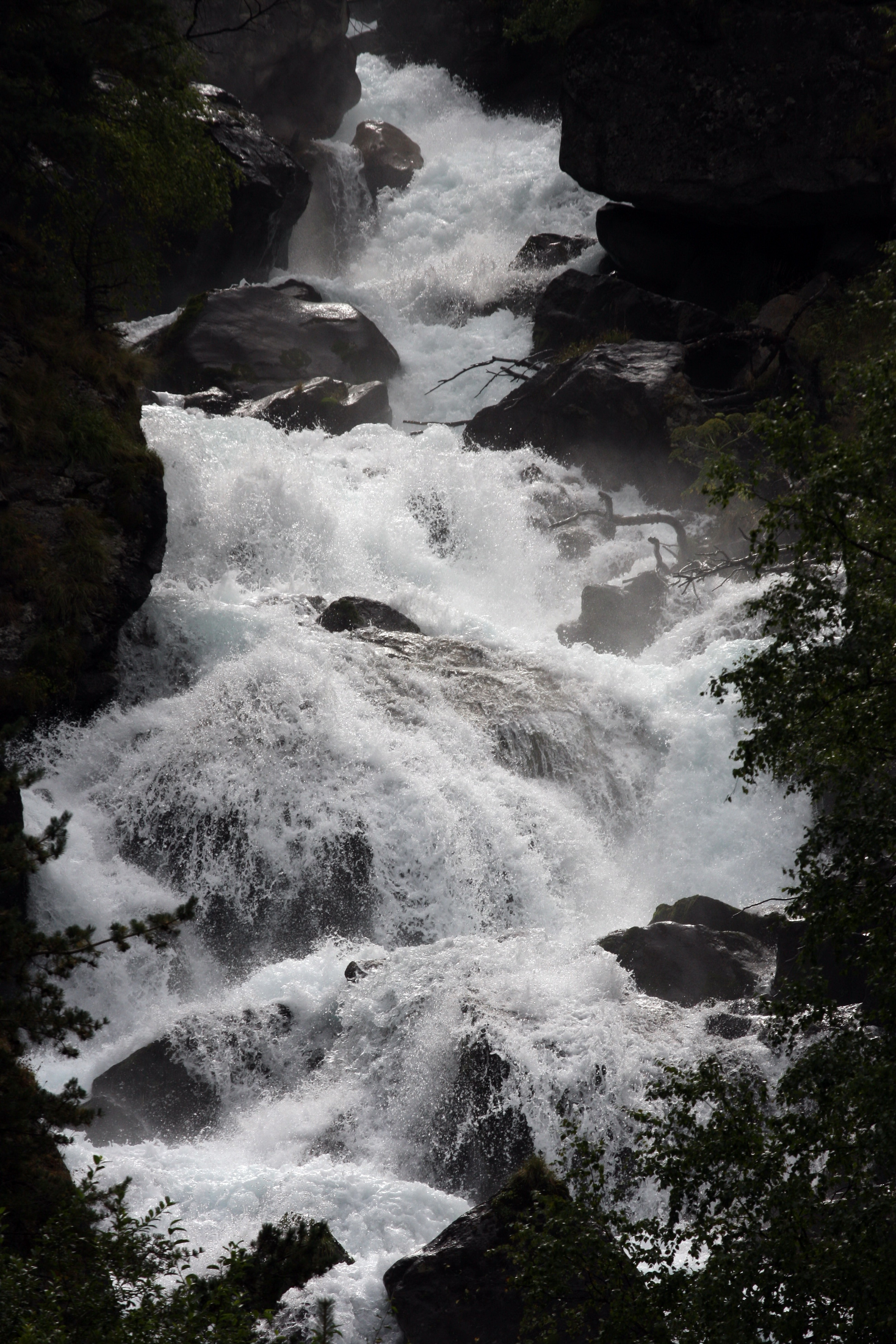 მდინარე ხდე